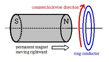 Figure desmonstrating Lenz's law.